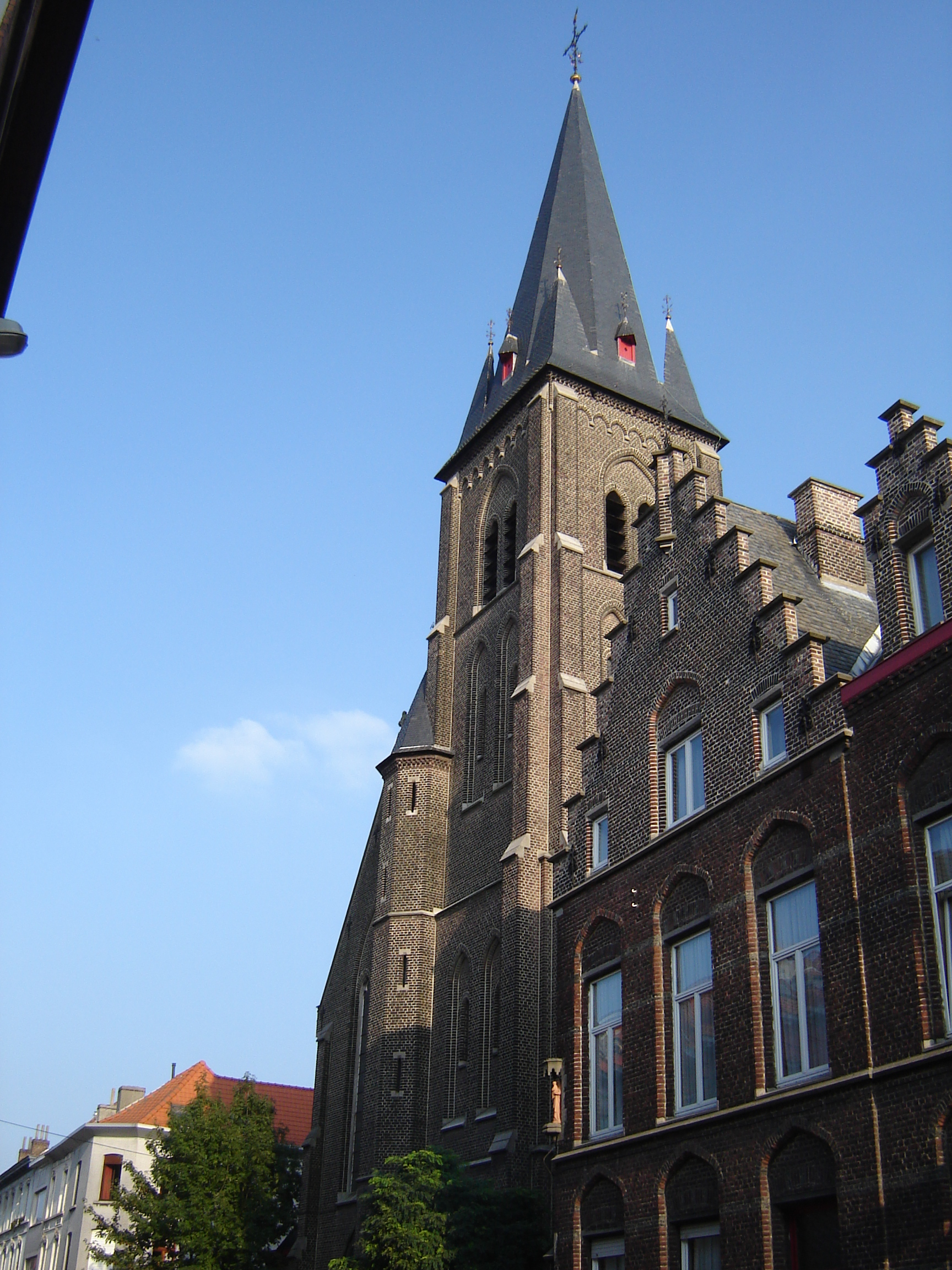 Church of Saint Anthony of Padua in the Heirnis quarter in Gent. Gent, East Flanders, Belgium.